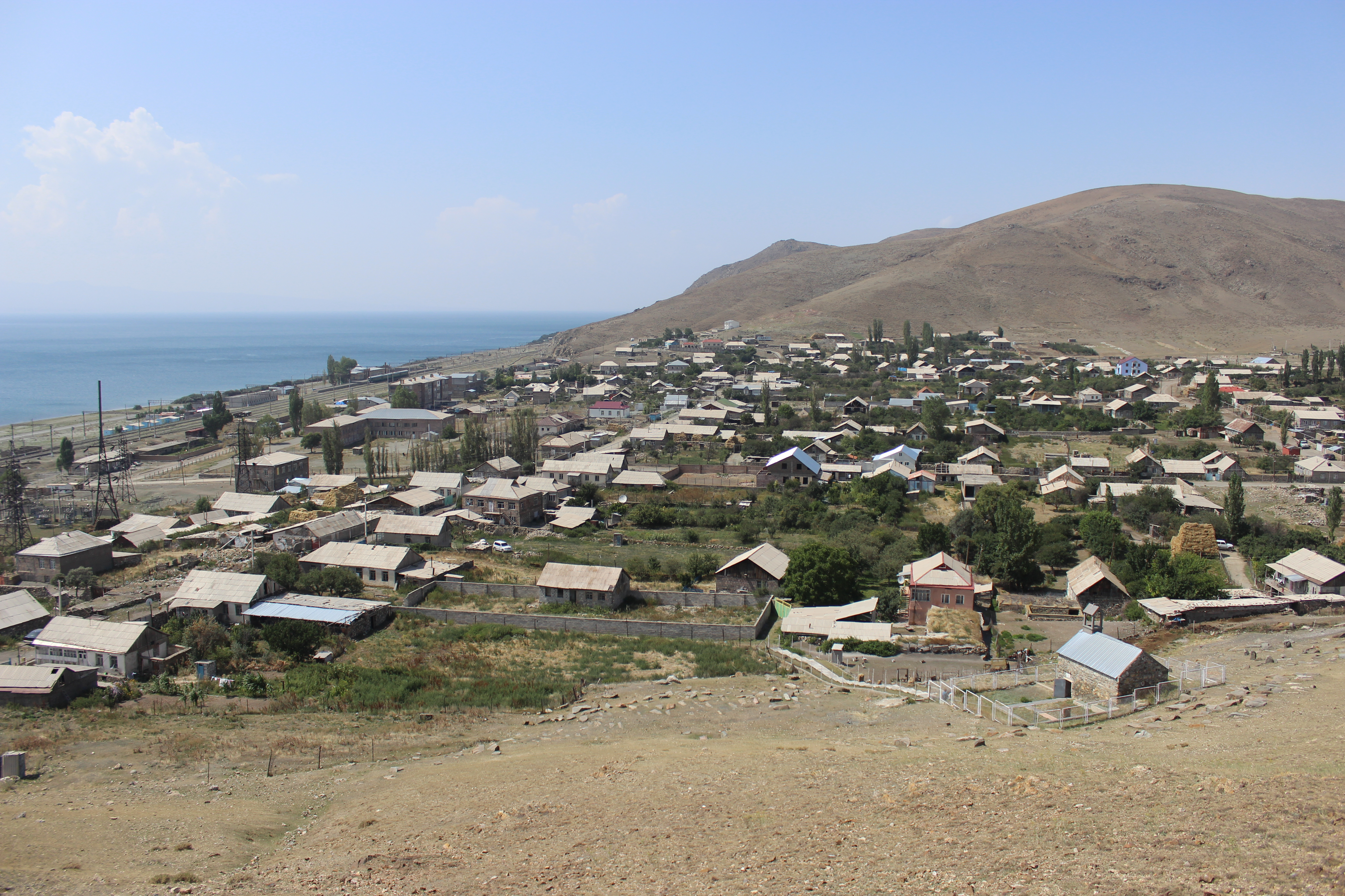 Shorzha, Gegharkunik Province, Armenia